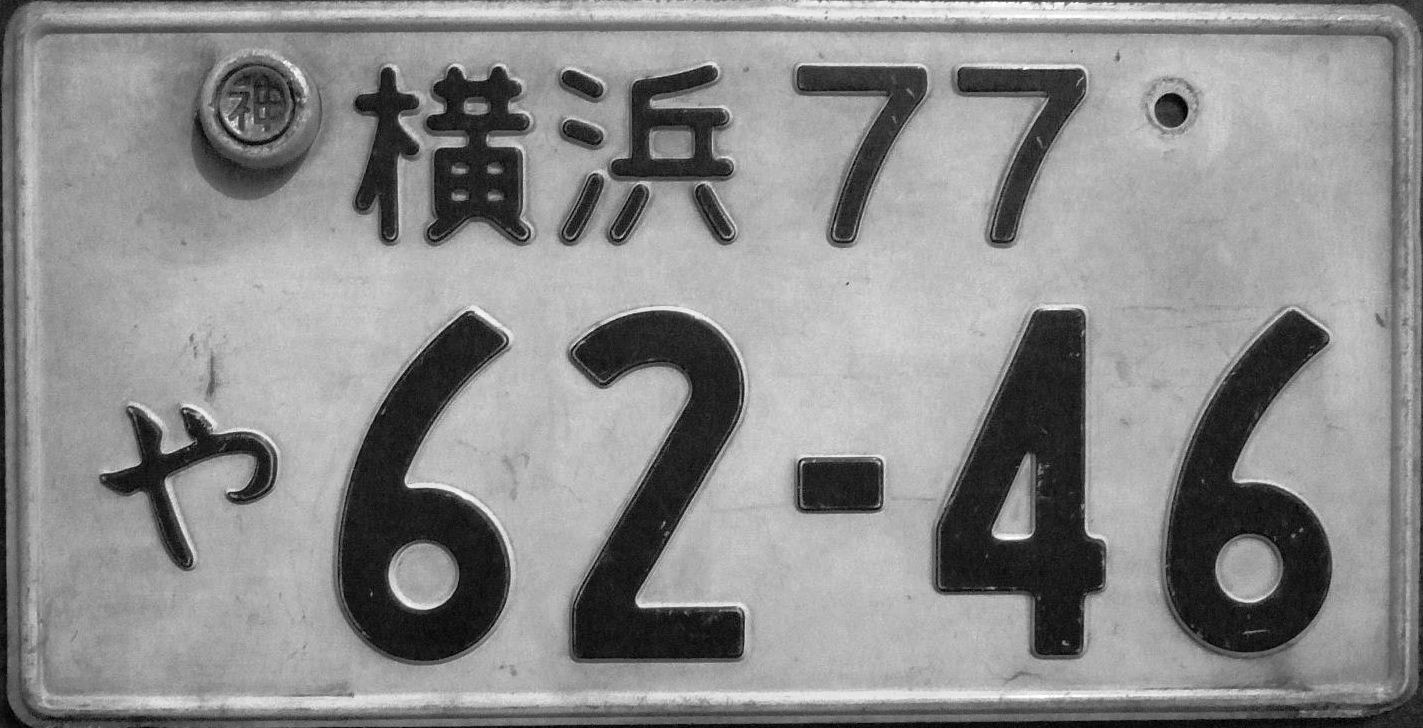 This Japanese plate has an intact seal at the upper left. This is the only Japanese plate in my collection with this seal which is usually badly defaced or removed from the plate when it leaves the country as an export vehicle. Japan has very strict rules regarding it's plates. This plate came from a Thai collector. Click on all sizes to see the seal up close.